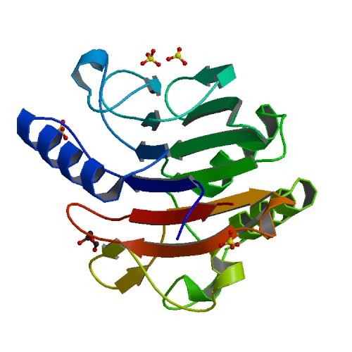 Crystal structure of the targeting endonuclease of the human LINE-1 retrotransposon